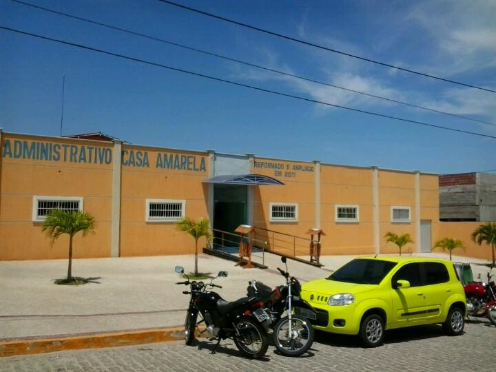 YellowHome